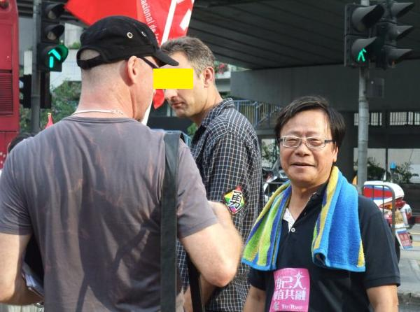 Wong Yuk Man at the 2009 International Day Against Homophobia and Transphobia march in Hong Kong